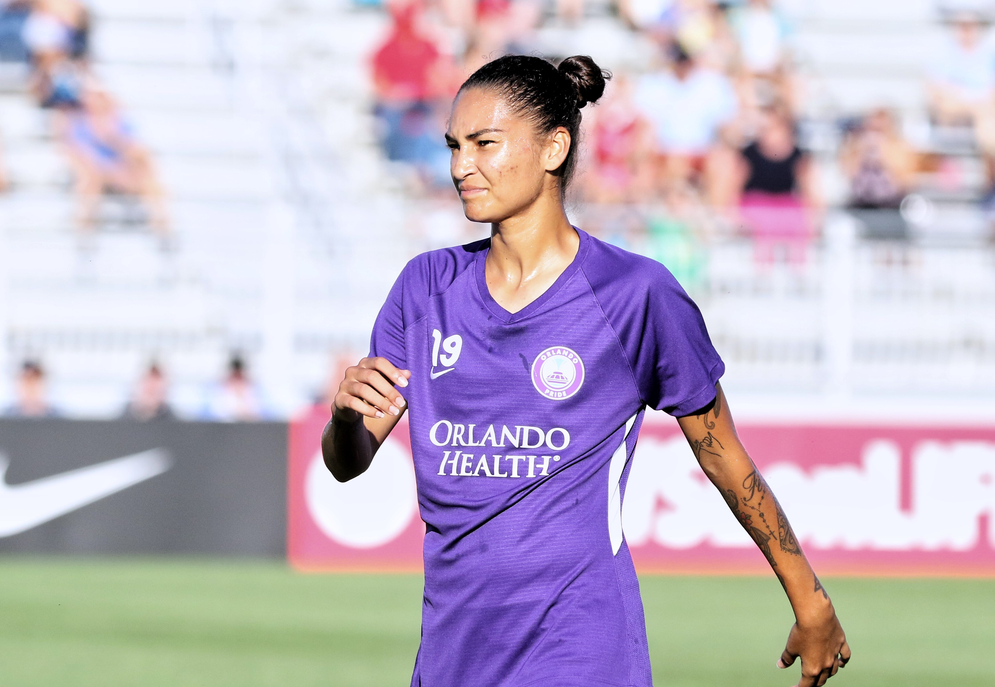 Poliana Barbosa Medeiros playing for Orlando Pride on June 23, 2018.